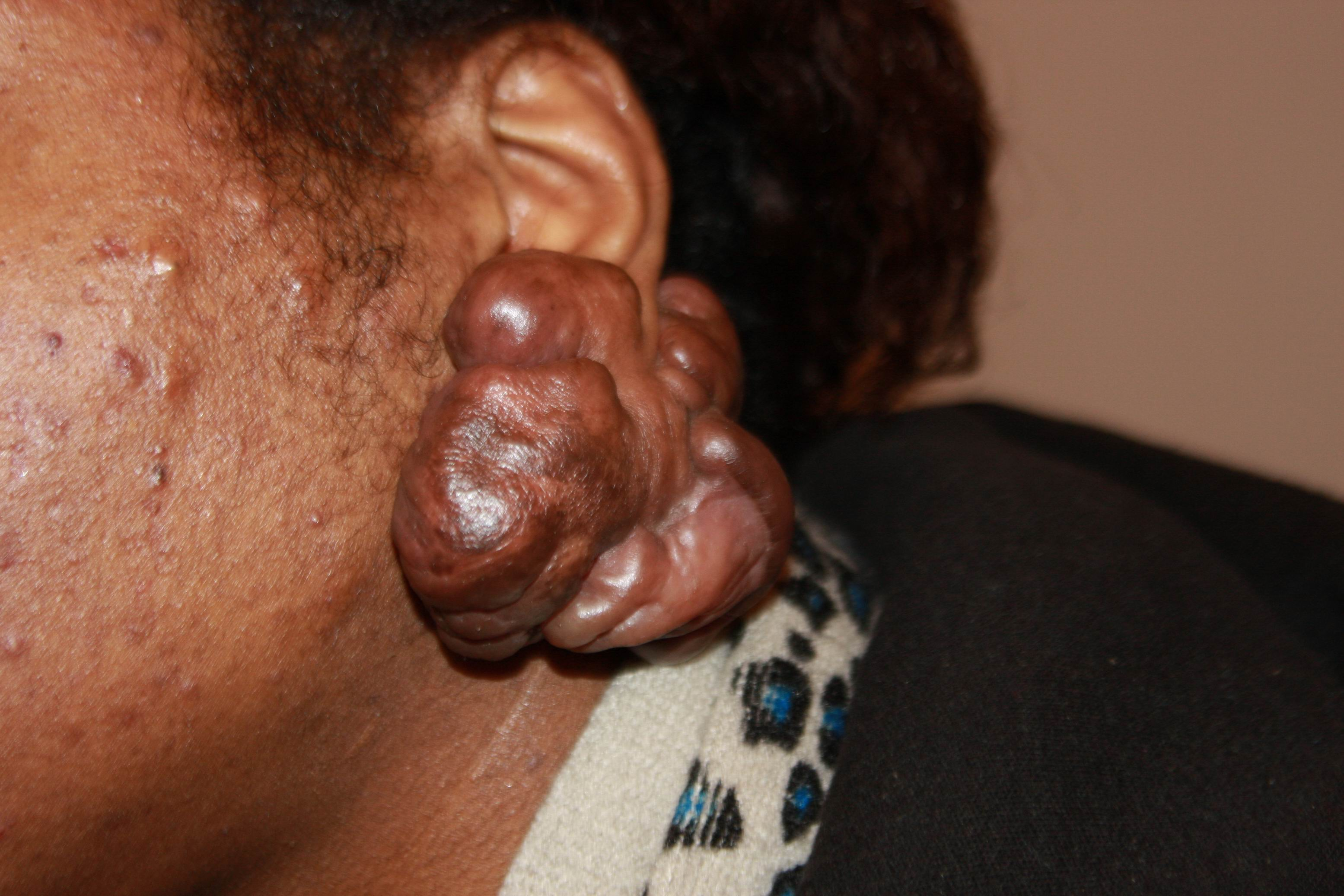 Massive Earlobe Keloid. Masive Keloid